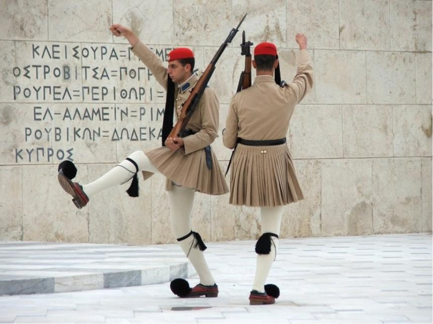 Producer says: "I, the creator of this work, hereby grant the permission to copy, distribute and/or modify this document under the terms of the GNU Free Documentation License, Version 1.2 or any later version published by the Free Software Foundation; with no Invariant Sections, no Front-Cover Texts, and no Back-Cover Texts. Subject to disclaimers."